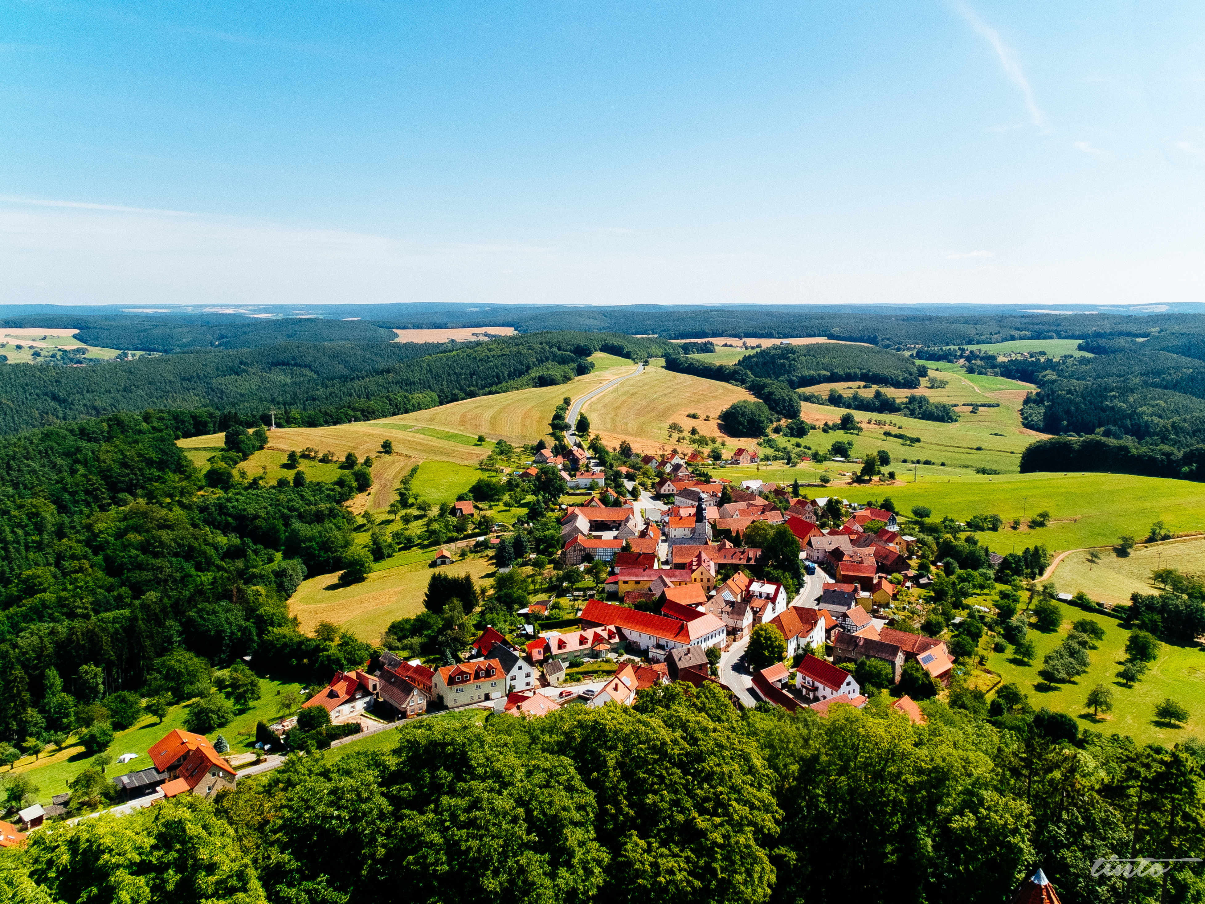 Seitenroda, Thuringia, Germany; seen from Leuchtenburg castle